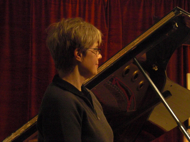 Marilyn Lerner, december 11th, 2010 at Loft (Cologne), Germany, in concert as member of the Ig Hennemann Sextet